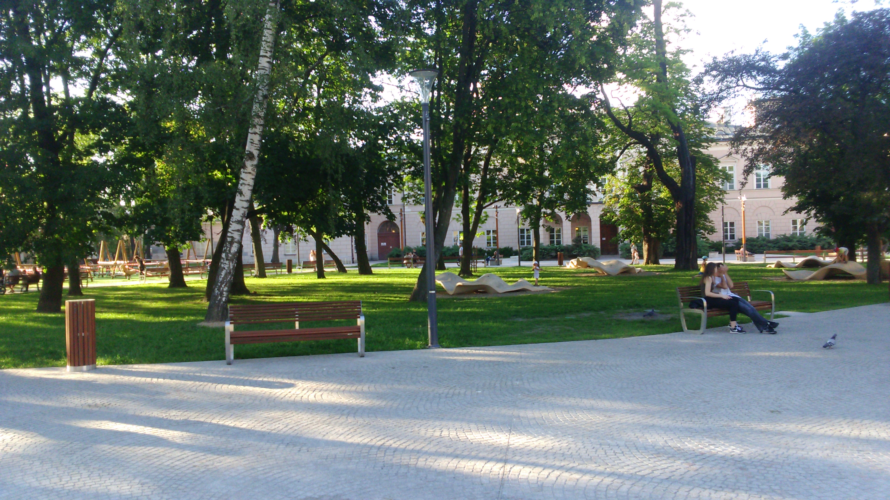 Plac Litewski